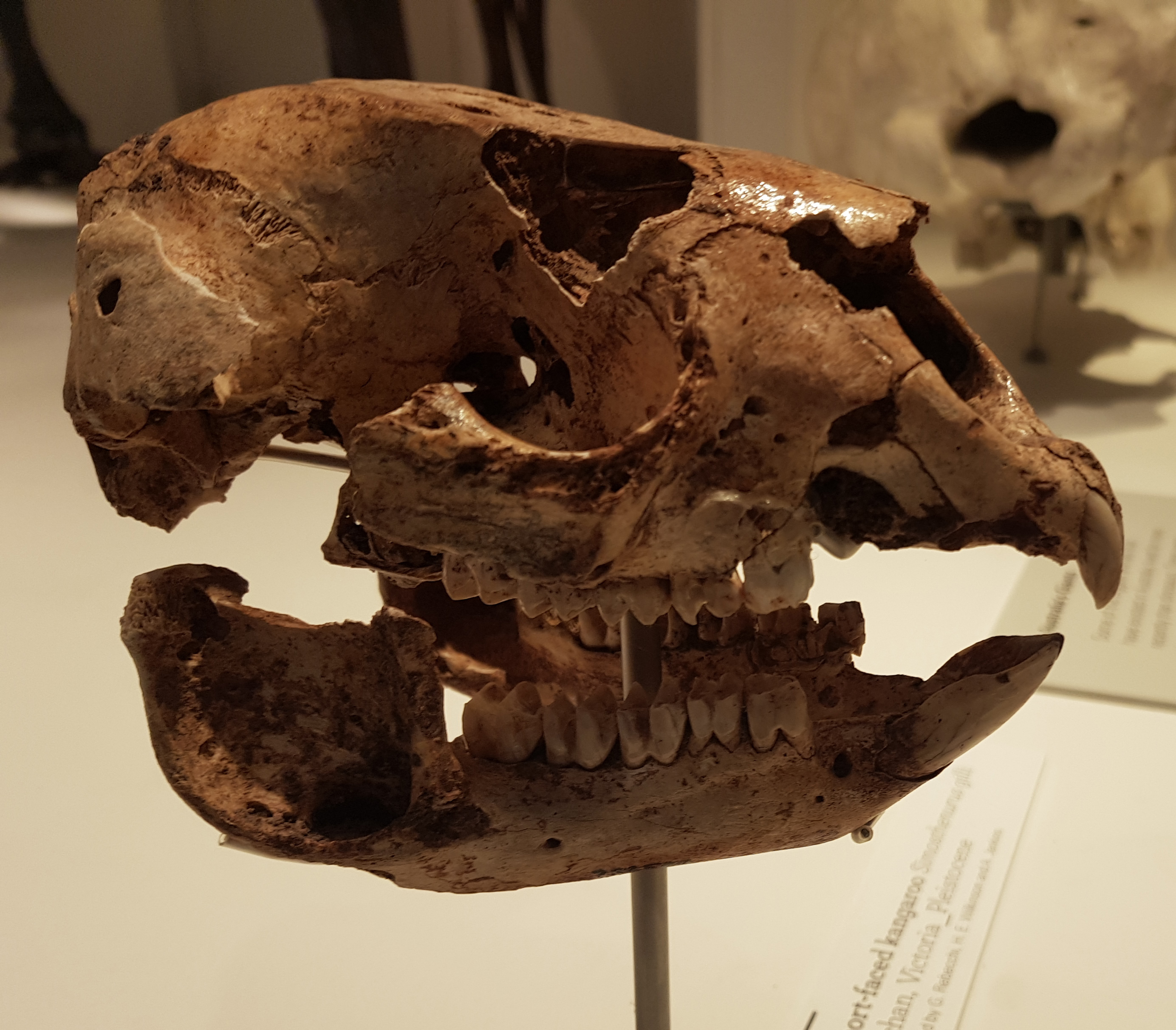 Skull of Simosthenurus gilli at the Melbourne Museum